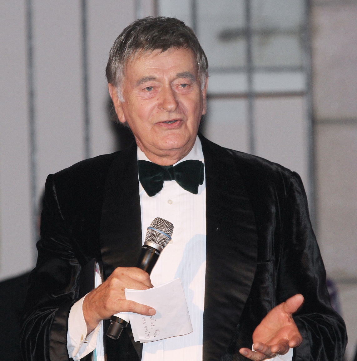 Barrie Ingham introducing a play he directed. Palm Beach, Florida, USA. April 2nd, 2011